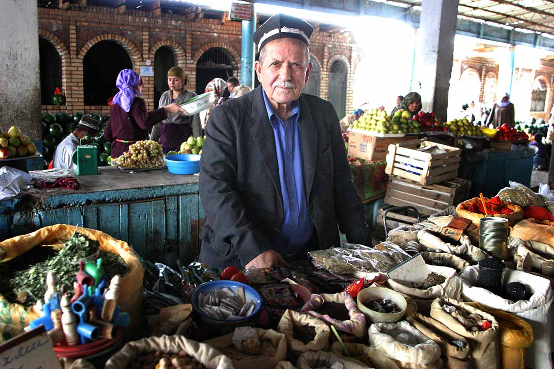 A man from Tajikistan selling his products at a local market in Dushanbe.